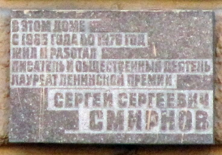 The famous Soviet writer Sergey Smirnov lived in this house (Moscow, Prospekt Mira, 74) in 1965 - 1976.